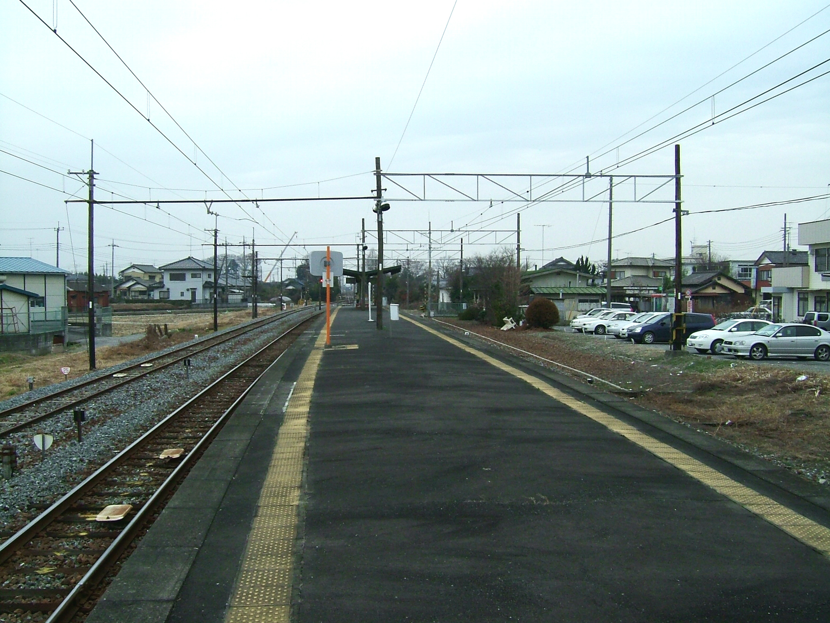 The platform at Bushū-Araki Station on the Chichibu Main Line in Gyoda city, Saitama Prefecture, Japan